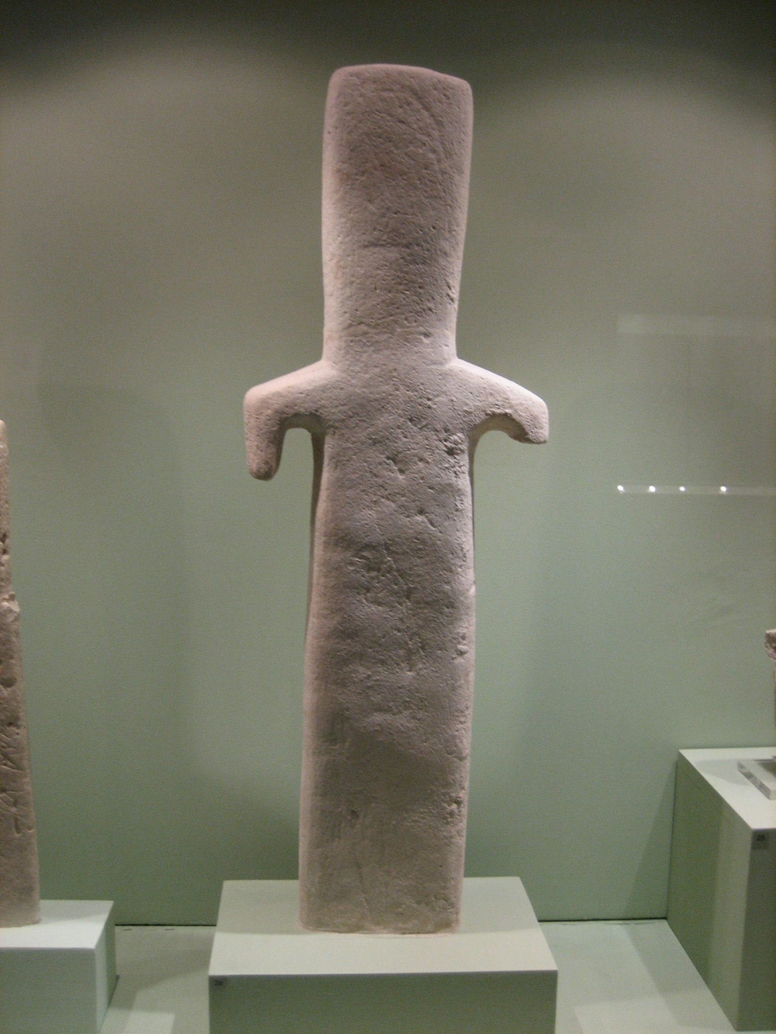 Chalk, Early Cypriot III period - Middle Cypriot I period(1900-1800BC)